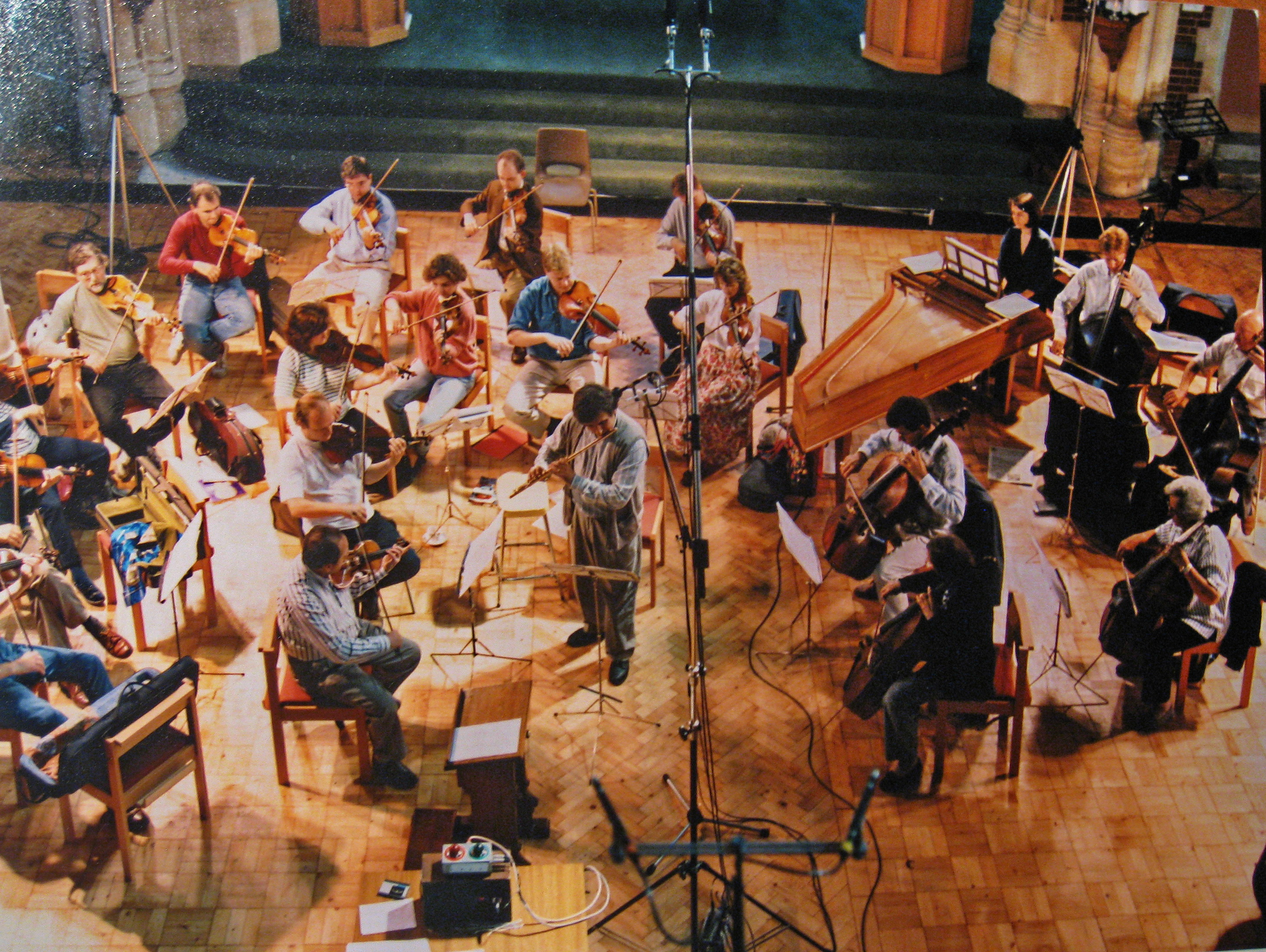 Claudi Arimany recording a concert with the England Chamber Orchestra